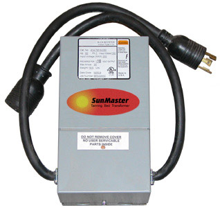 Alternative fixed ratio buck-boost transformer used primary for tanning beds and other light to medium equipment.